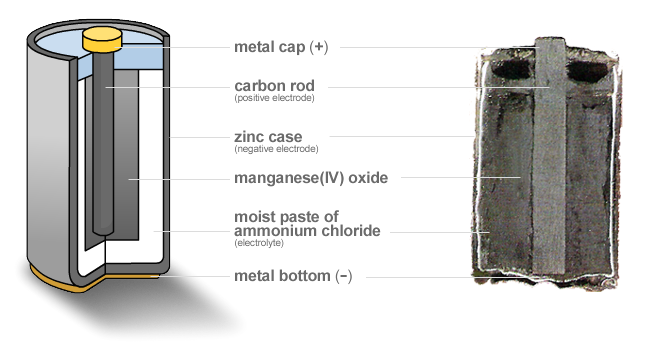 Self-drawn. A zinc-carbon battery.